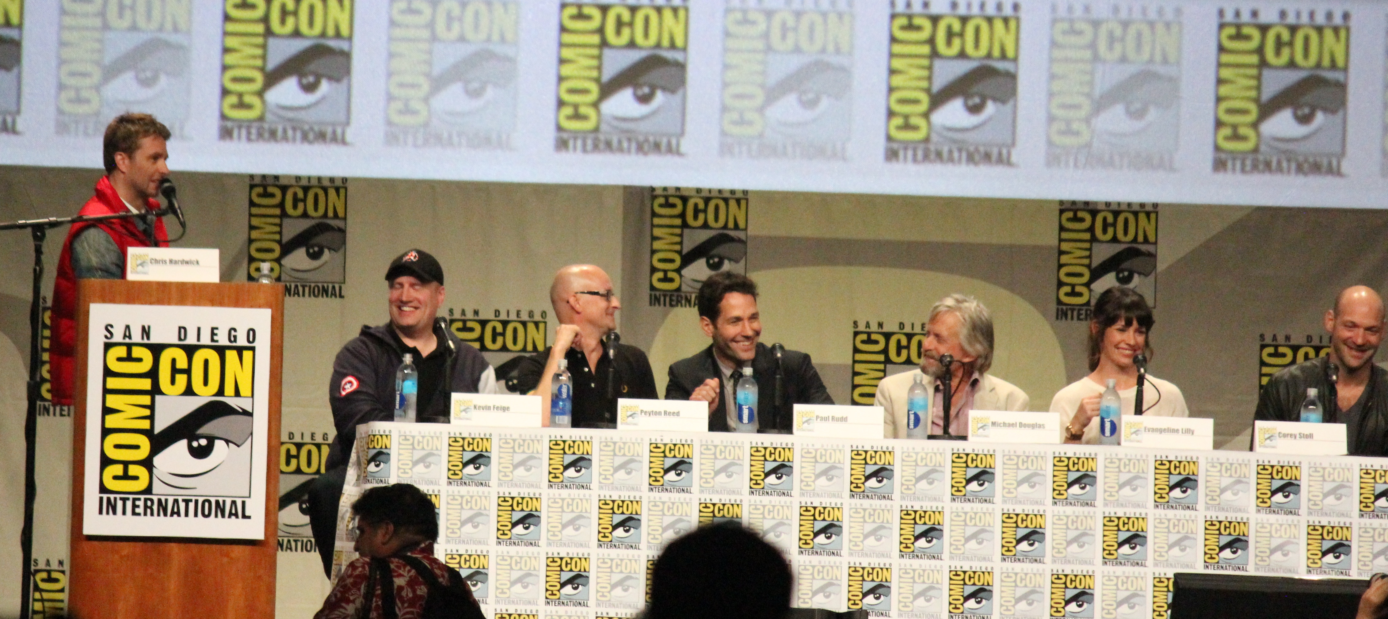 Ant Man Panel SDCC 2014